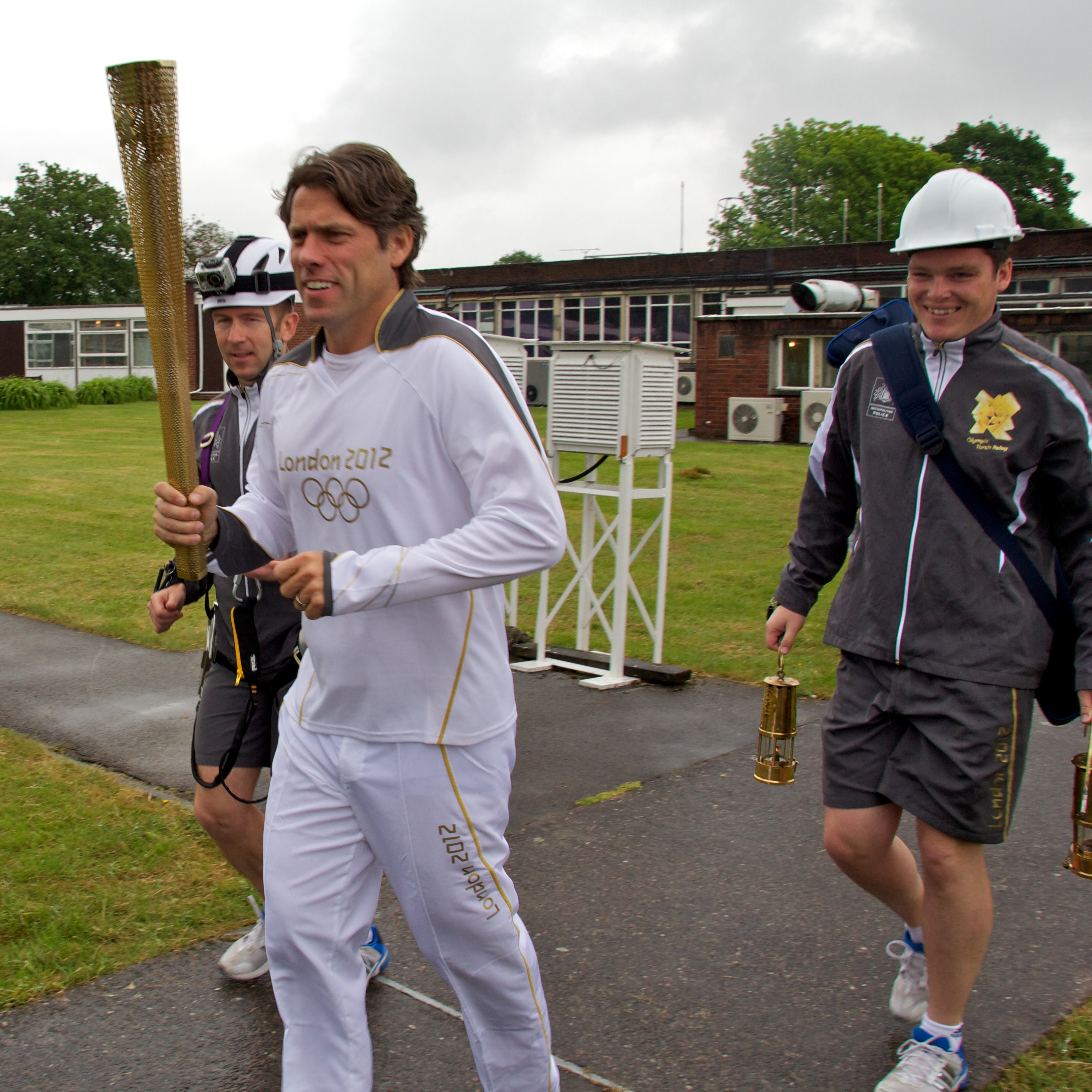 The 2012 Olympic Torch at Jodrell Bank Observatory, being carried by John Bishop